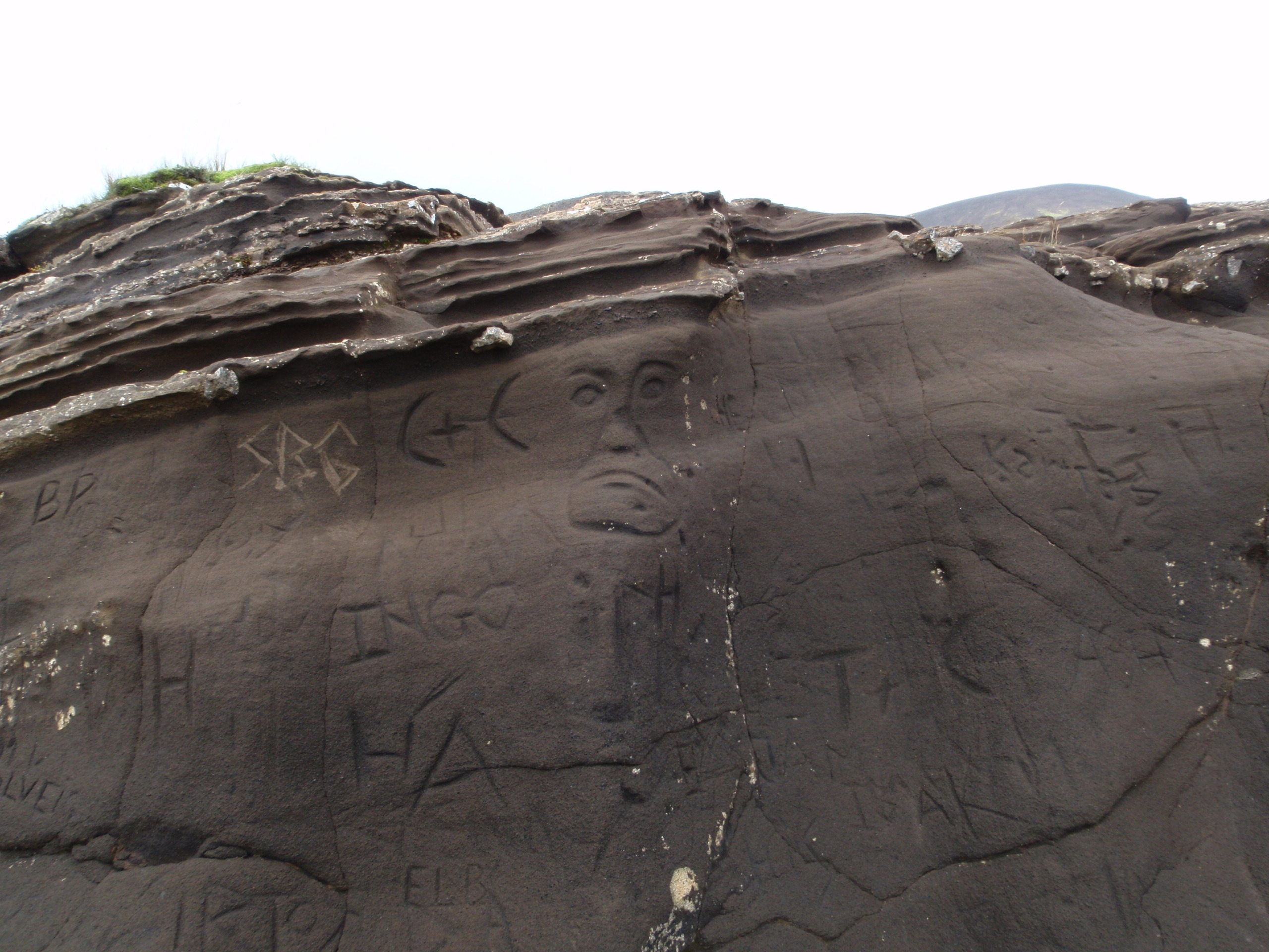 Hyaloclastite rock in Iceland with rock engravings.